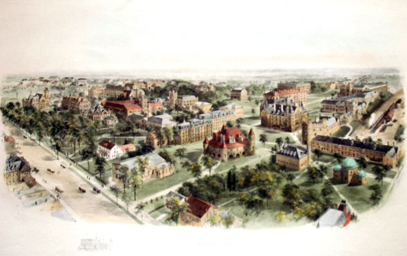 Princeton University, 1906. Hand-colored engraving after a watercolor by Richard Rummell (1848-1924). Commissioned and published by Littig and Company. GC047 Princetoniana Collection. Rummell made a number of watercolors of Princeton University (see also below), which were reproduced in full color, sepia, and/or black and white prints.